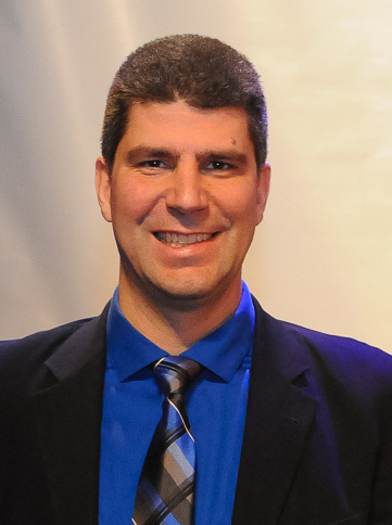 Frederic Cassivi